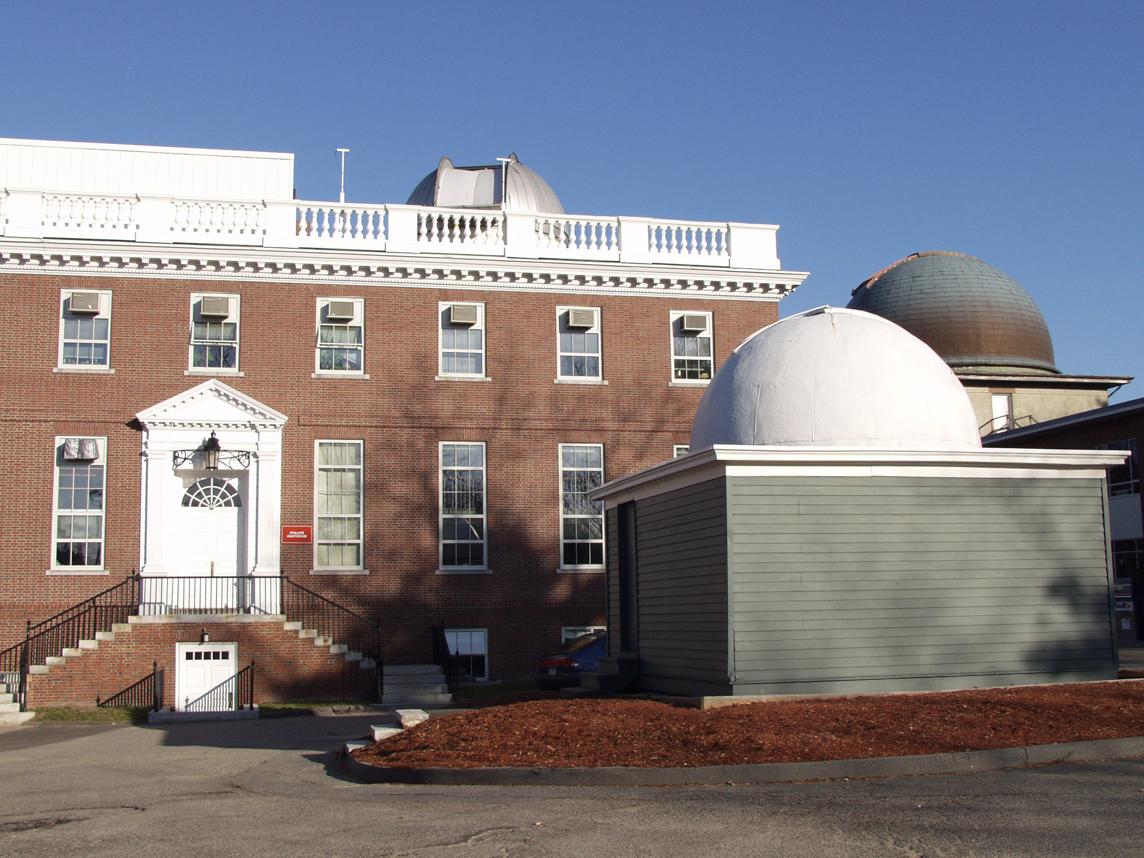 Exterior of Harvard-Smithsonian Center for Astrophysics, 60 Garden Street, Cambridge, Massachusetts